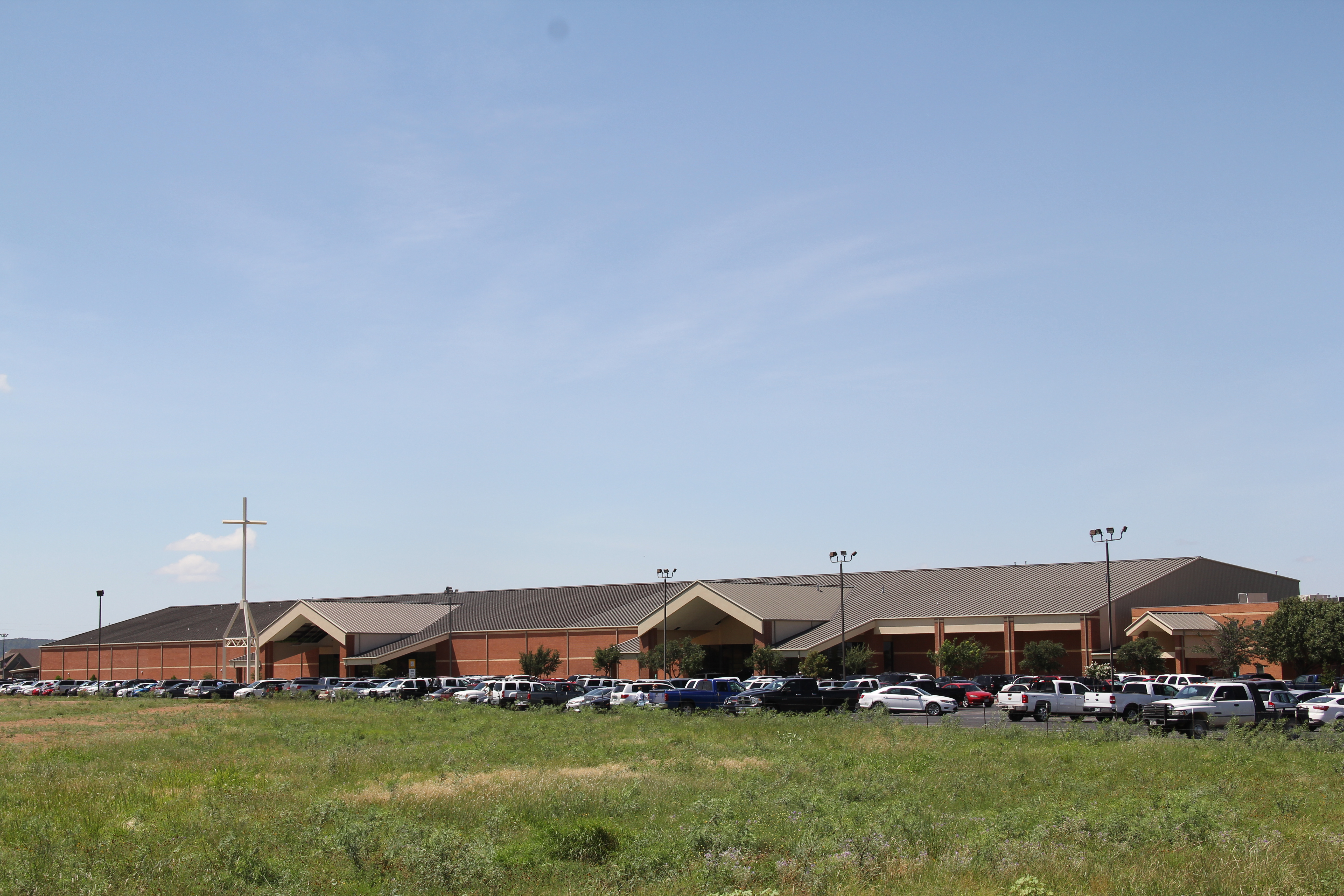 Beltway Park Baptist church from 707, Abilene, Texas